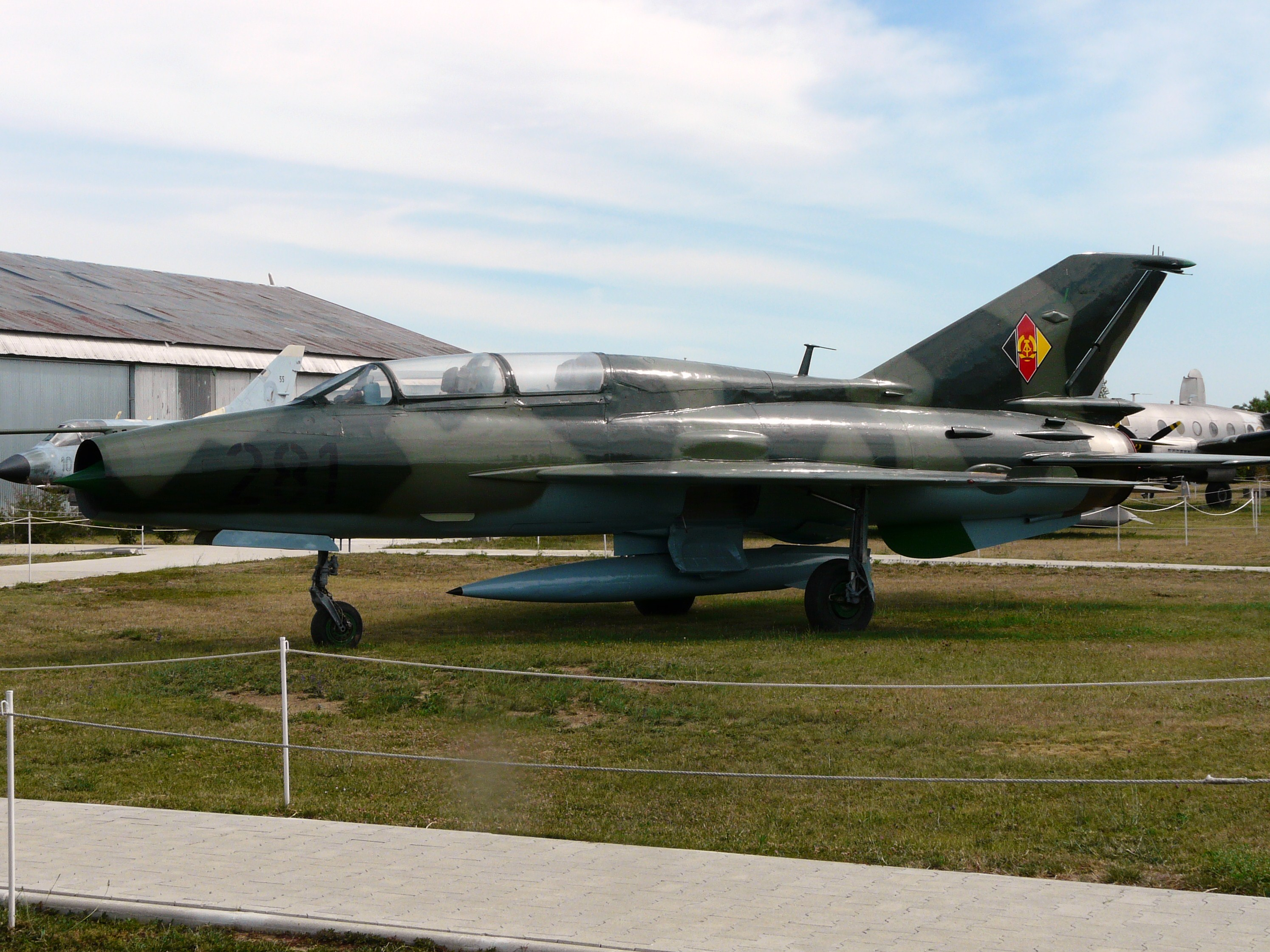 A former East German Mikoyan-Gurevich MiG-21U (NATO reporting name "Mongol") at the Montélimar Ancône Museum, France.